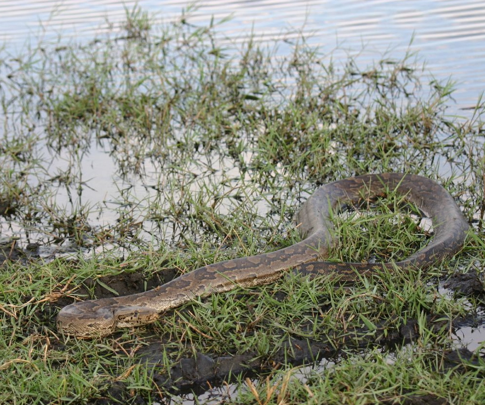 Southern African Rock Python (Python natalensis) at the edge of the Cuando River in Botswana (exact destination: Kwando Lagoon Camp; to the north of Moremi Wildlife Reserve and to the west of Chobe National Park )